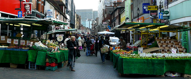 Surrey Street Market Some of the many stalls in this market which has been in existence for hundreds of years.